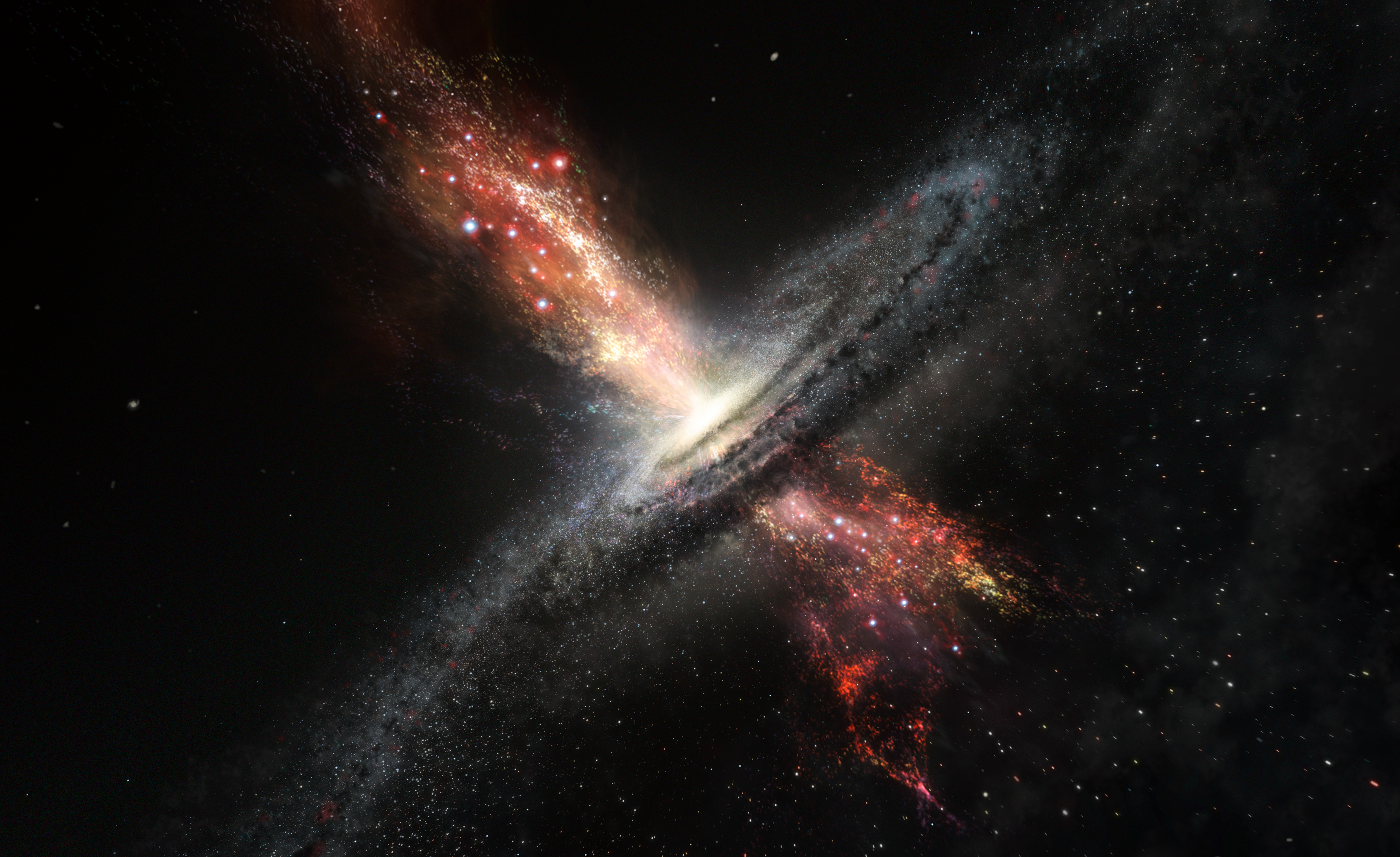 Artist’s impression of a galaxy forming stars within powerful outflows of material blasted out from supermassive black holes at its core. Results from ESO’s Very Large Telescope are the first confirmed observations of stars forming in this kind of extreme environment. The discovery has many consequences for understanding galaxy properties and evolution.